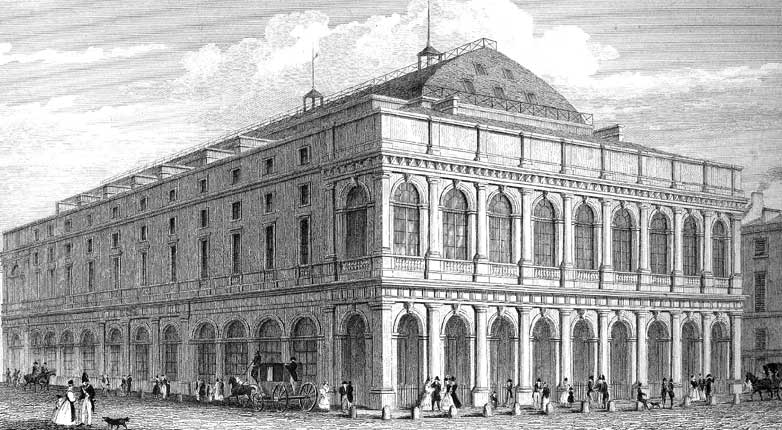 Salle Ventadour, former Parisian opera house around 1830 [scanned from Arthur Pougin, Paris and its Environs (London, 1831)]